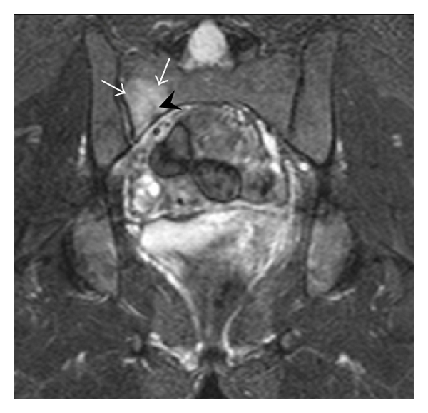 Inversion recovery MRI of right sacral alar insufficiency fracture. For context, see Occult fracture